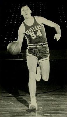 University of Maryland basketball player Al Bunge from the 1960 "Terrapin" yearbook